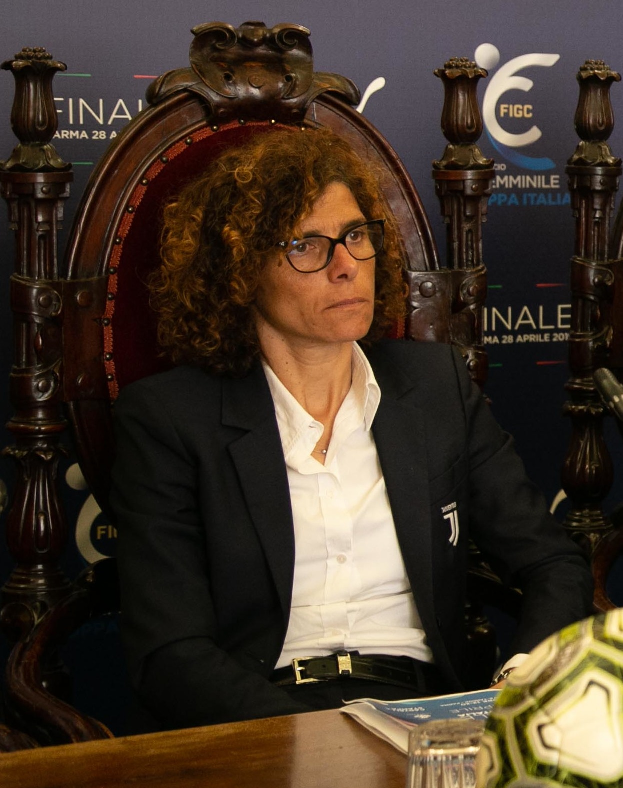 Italian football manager and former player Rita Guarino, head coach of Juventus Women, at presentation press conference of 2019 Italian Women's Cup Final, Parma city hall, April 18, 2019.